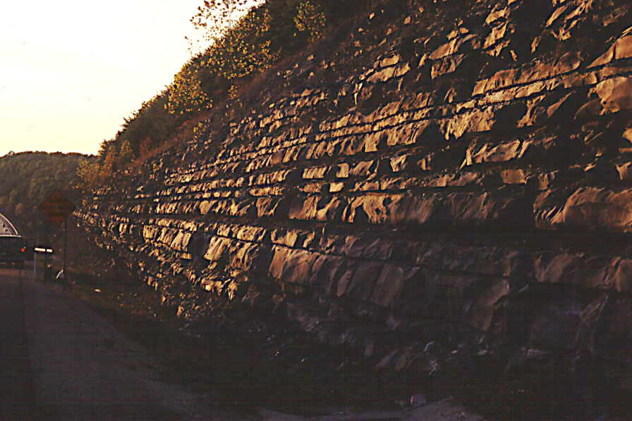 Turbidites at Mile Marker 135, Interstate 64, Kentucky. Farmers Member of the Mississippian Borden Formation. Photographed 1998.